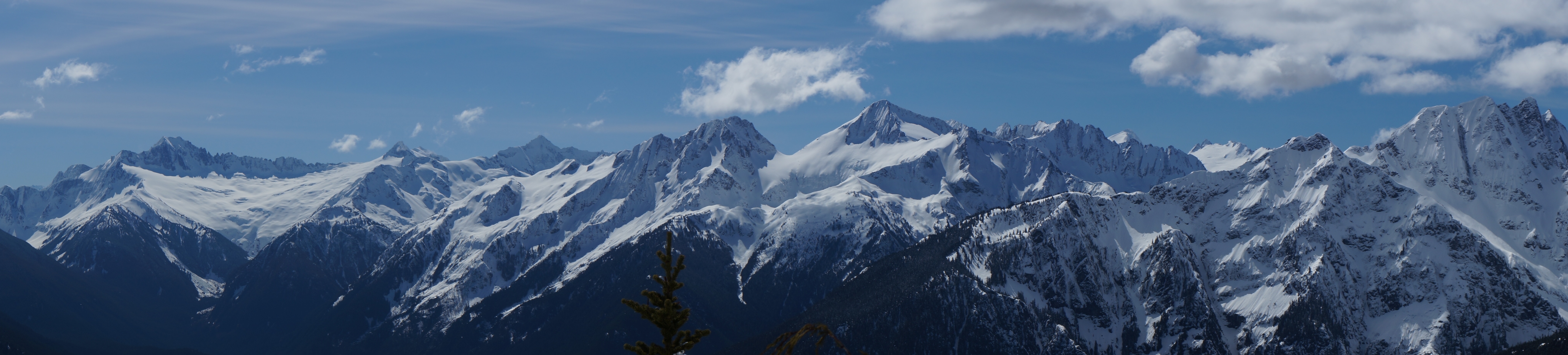 Panorama from Ruby Mountain in Noprth Cascades National Park. File has annotations identifying peaks.